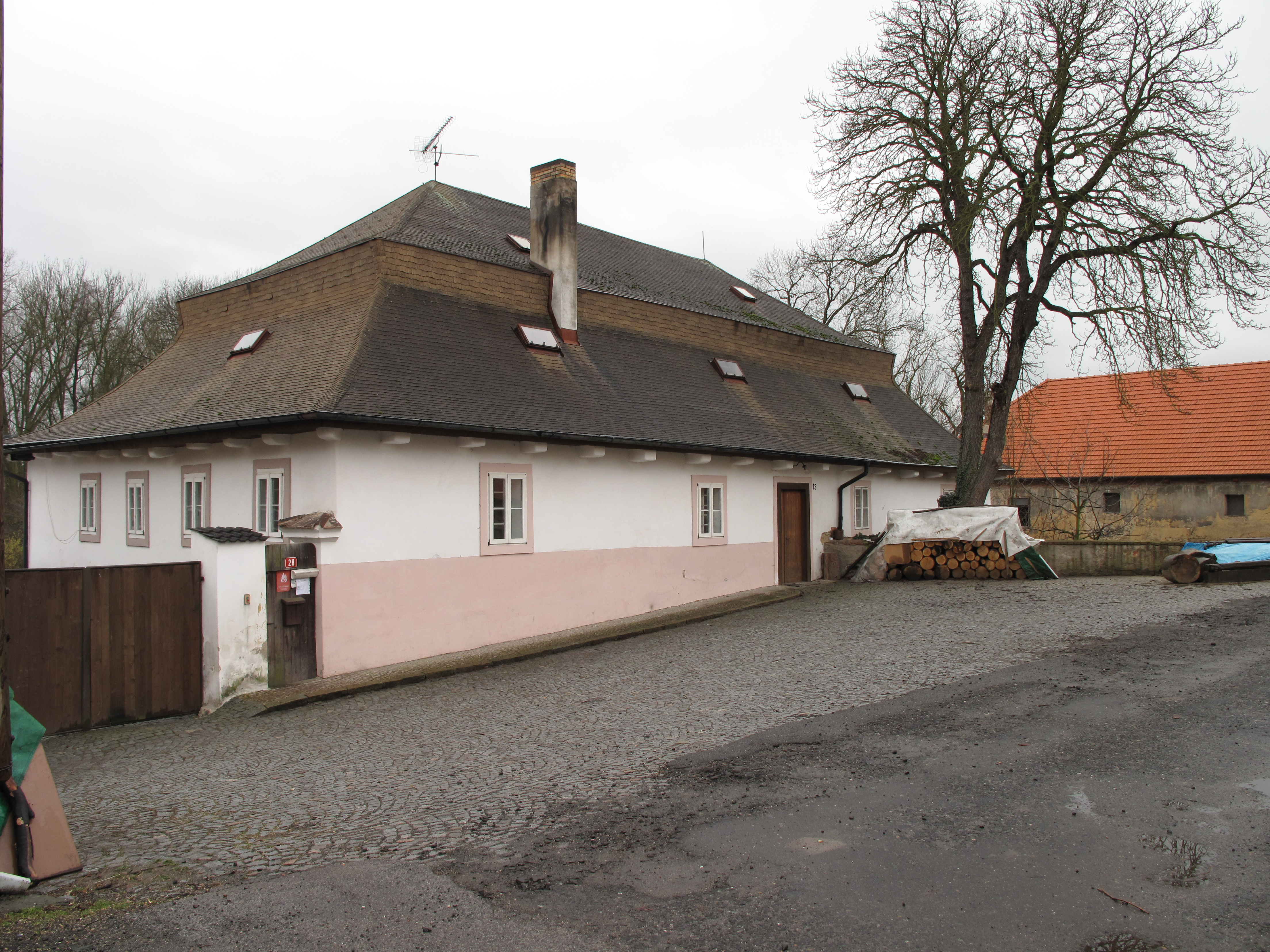 House with nice roof in Košátky village, Mladá Boleslav District, Czech Republic.